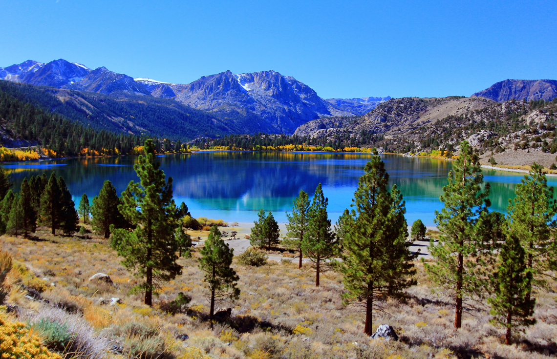 Stunning June Lake in the Fall